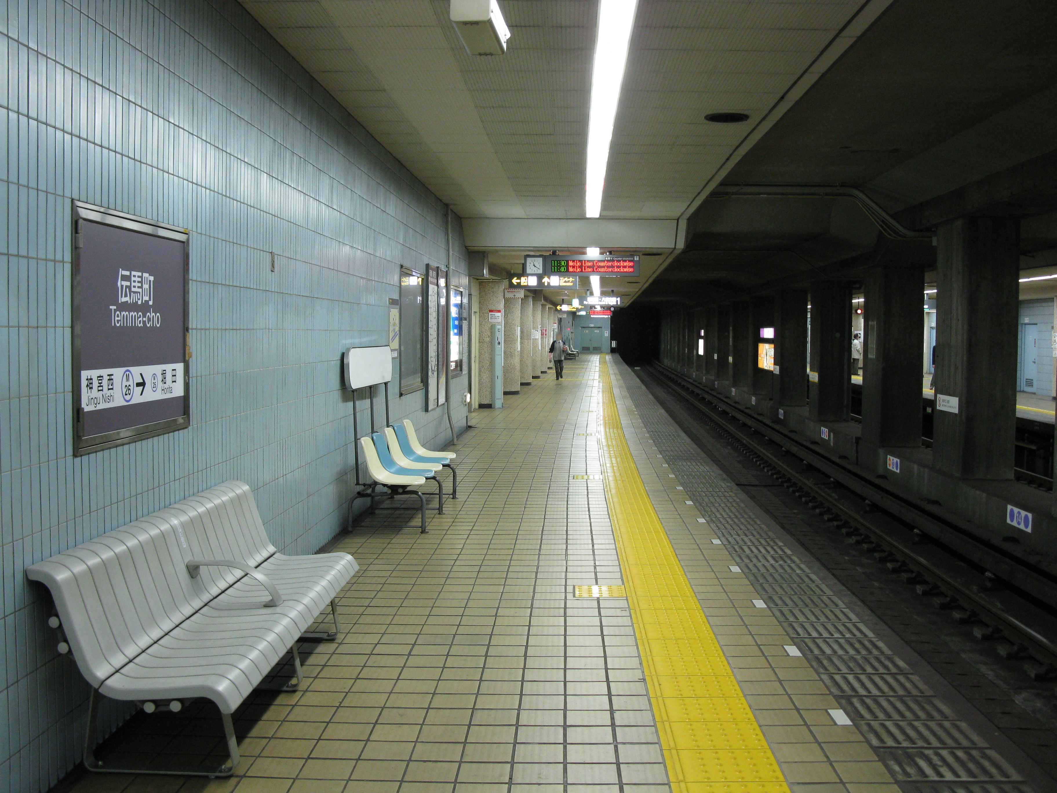 Temma-chō Station platform (Nagoya Municipal Subway Meijō Line)